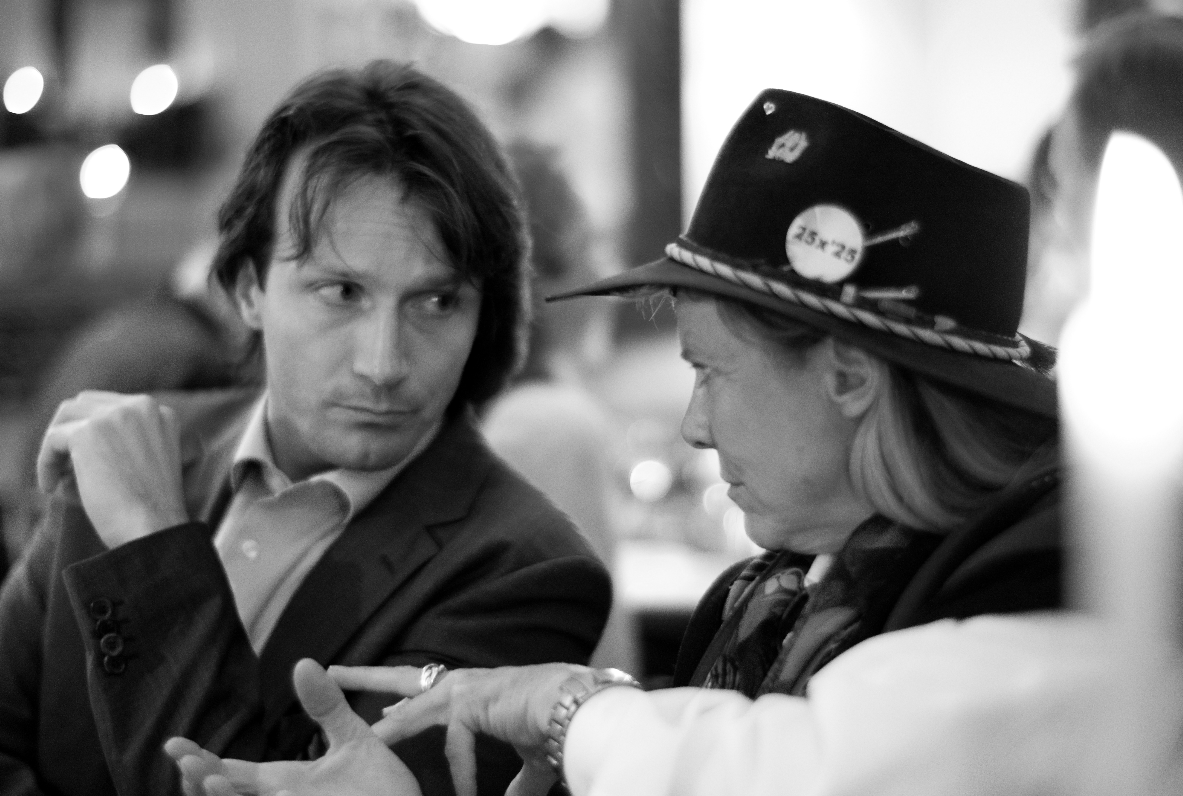 Wolfgang Blau and Hunter Lovins